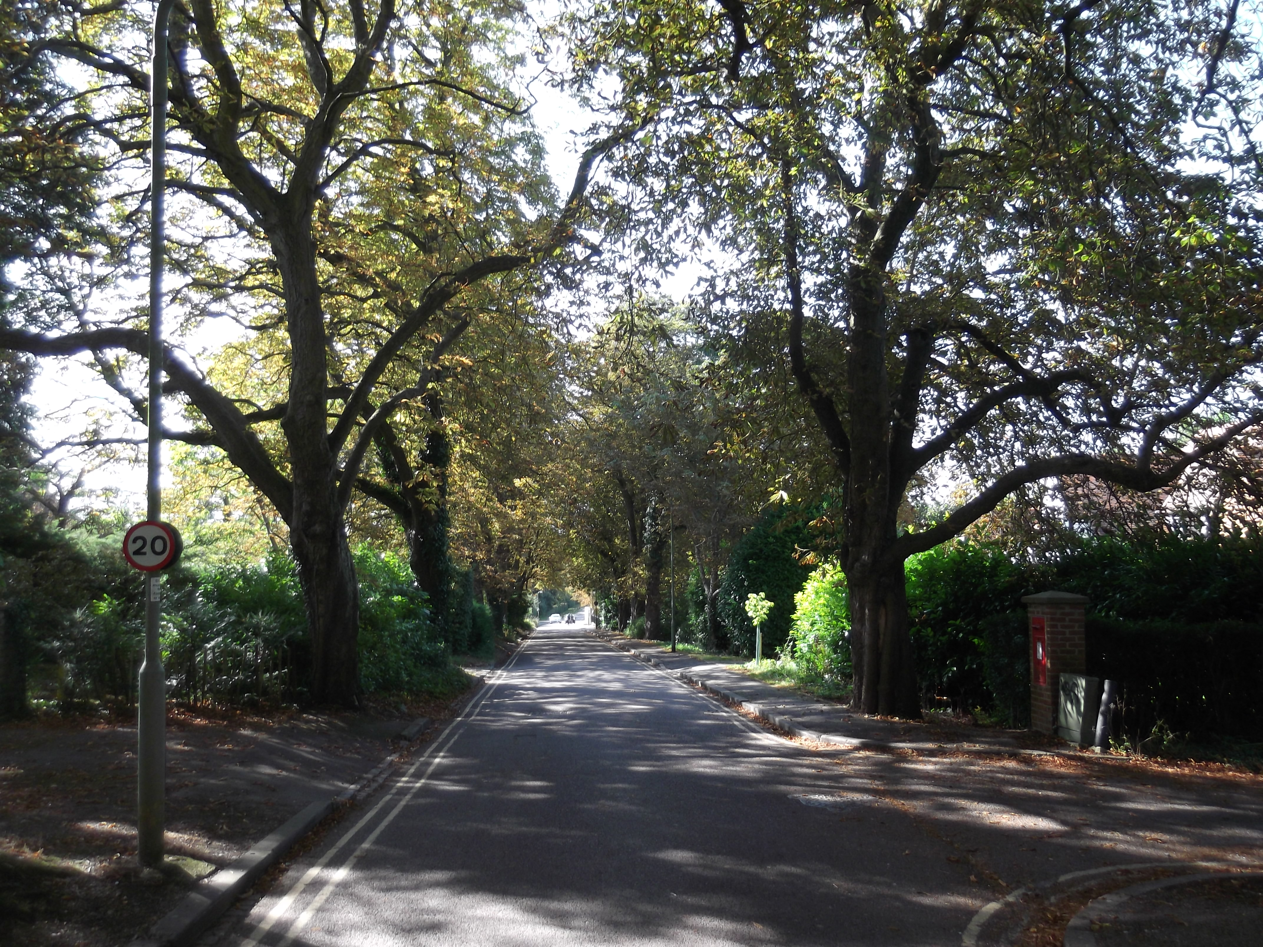 View up the lane looking east.